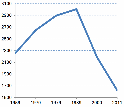 Ethnic Poles in Estonia population dynamics: censuses 1959-2011